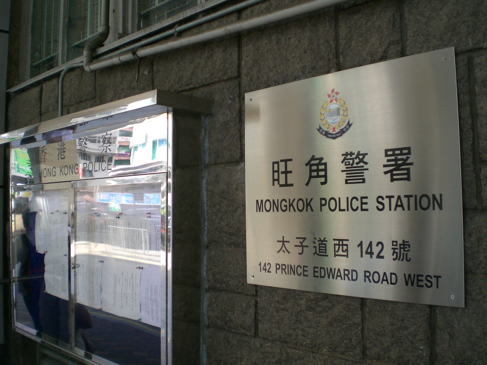 Mong Kok Police Station, 旺角警署, Prince Edward, Hong Kong Author= MK PETER